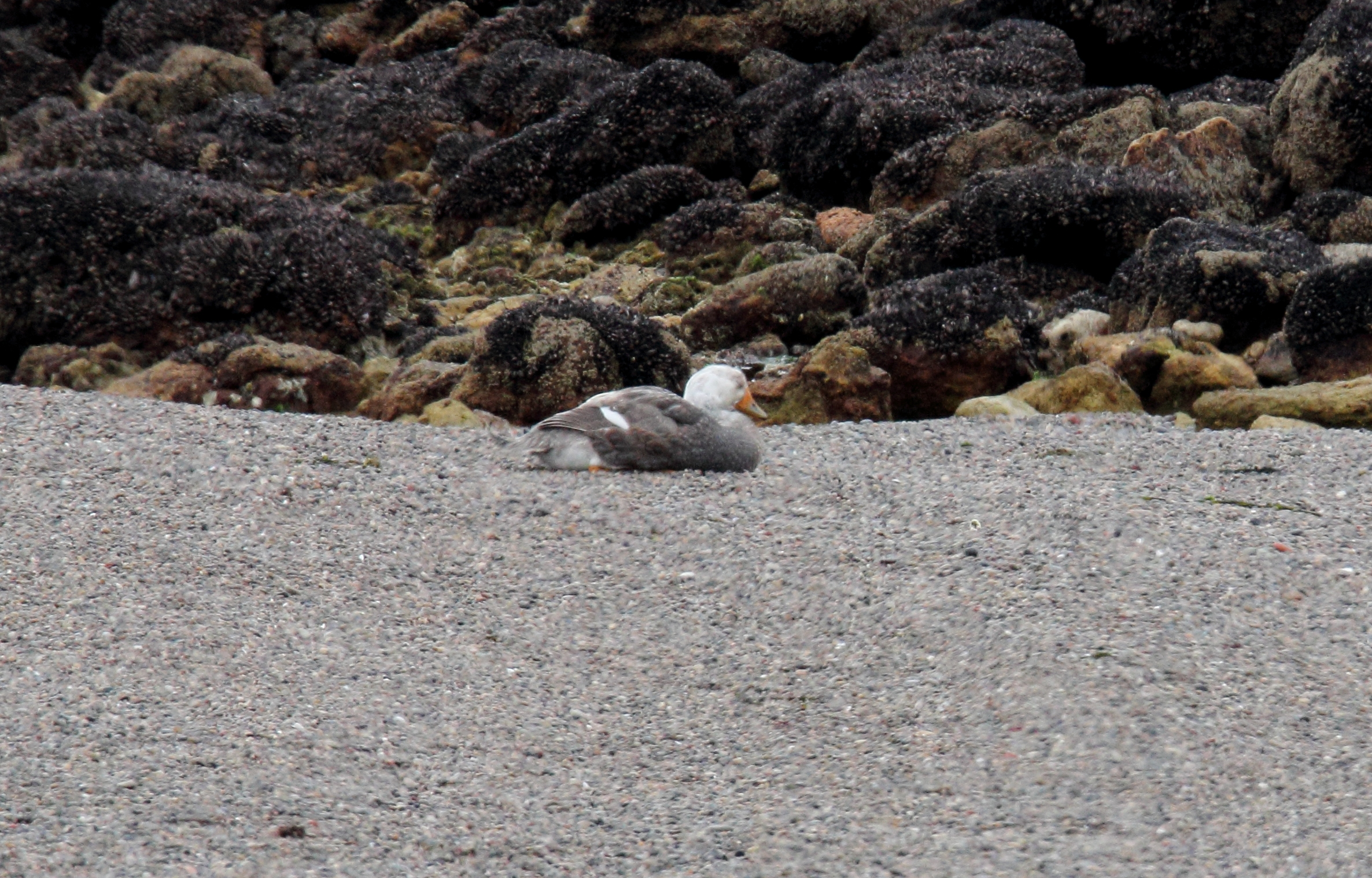 White-headed Steamer Duck (Tachyeres leucocephalus)